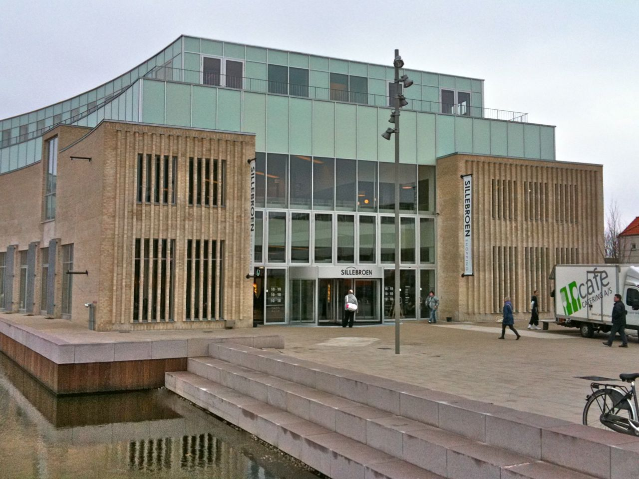 Sillebroen shopping centre in Frederikssund